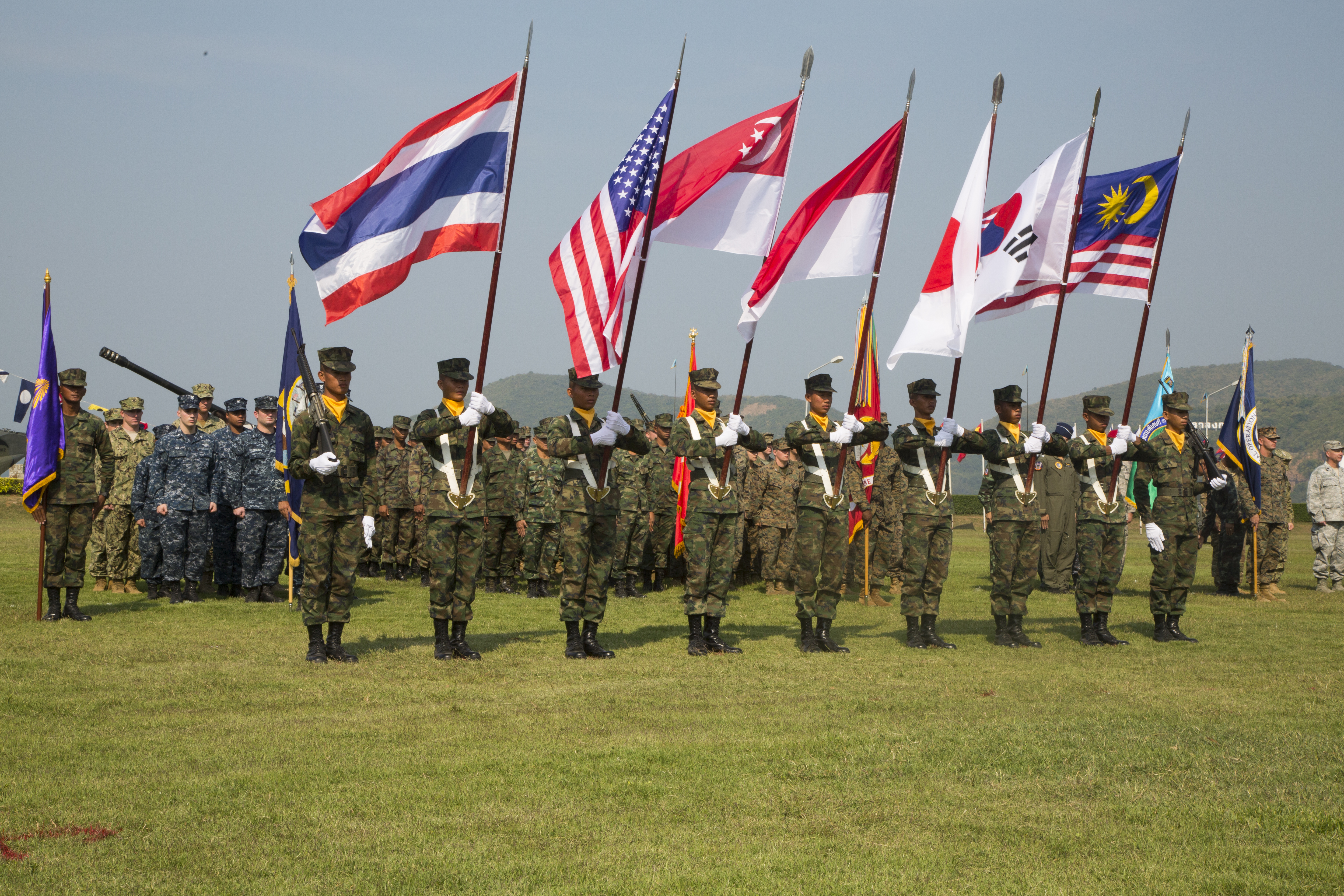 Multinational service members stand in formation during the opening ceremony for Exercise Cobra Gold at the Royal Thai Marine Corps Headquarters in Sattahip, Thailand, Feb. 9, 2016. Cobra Gold will consist of three primary events: a command post exercise, which includes a senior leader seminar; humanitarian civic assistance projects in Thai communities; and a field training exercise that will build regional relationships. (U.S. Marine Corps photo by Lance Cpl. Jeremy L. Laboy/Released) Unit: U.S. Marine Corps Forces, Pacific